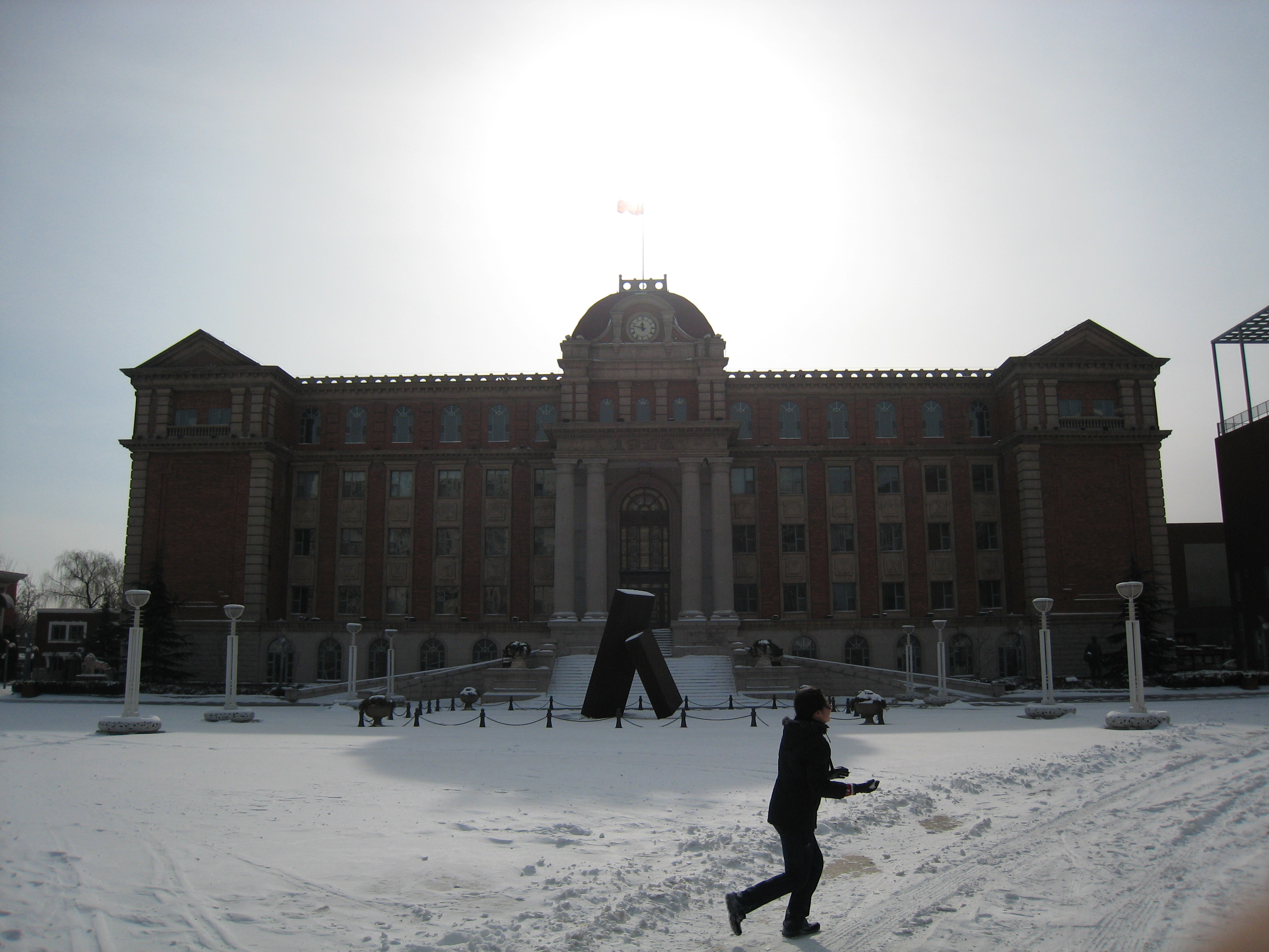 Tianjin Experimental High School, Tianjin, China